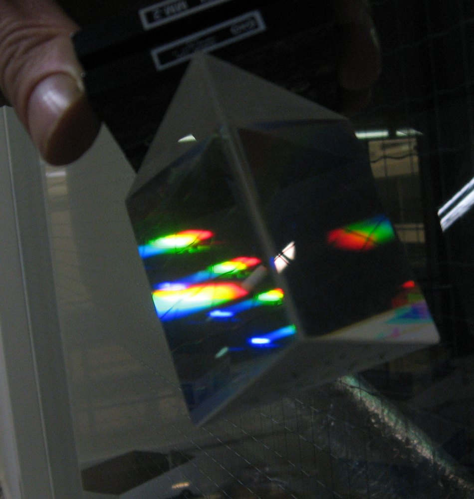 Photo by Han-Kwang, 29 Nov 2006. This is a large prism made of SF10 glass.